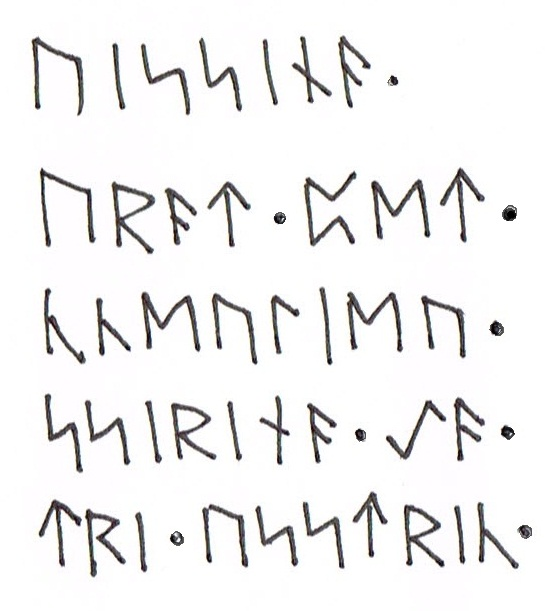 Transcription of runes from Slovenian translation of J.R.R. Tolkien's The Hobbit